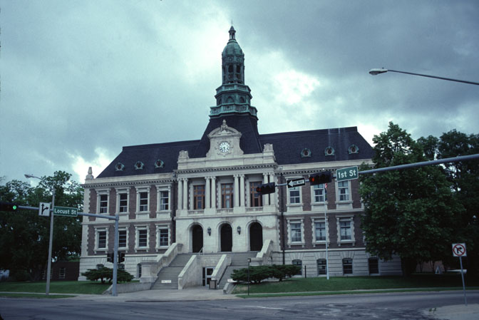 Front of the Hall County Courthouse, located at the intersection of First and Locust Streets in Grand Island, Nebraska, United States. Built in 1901, it is listed on the National Register of Historic Places.